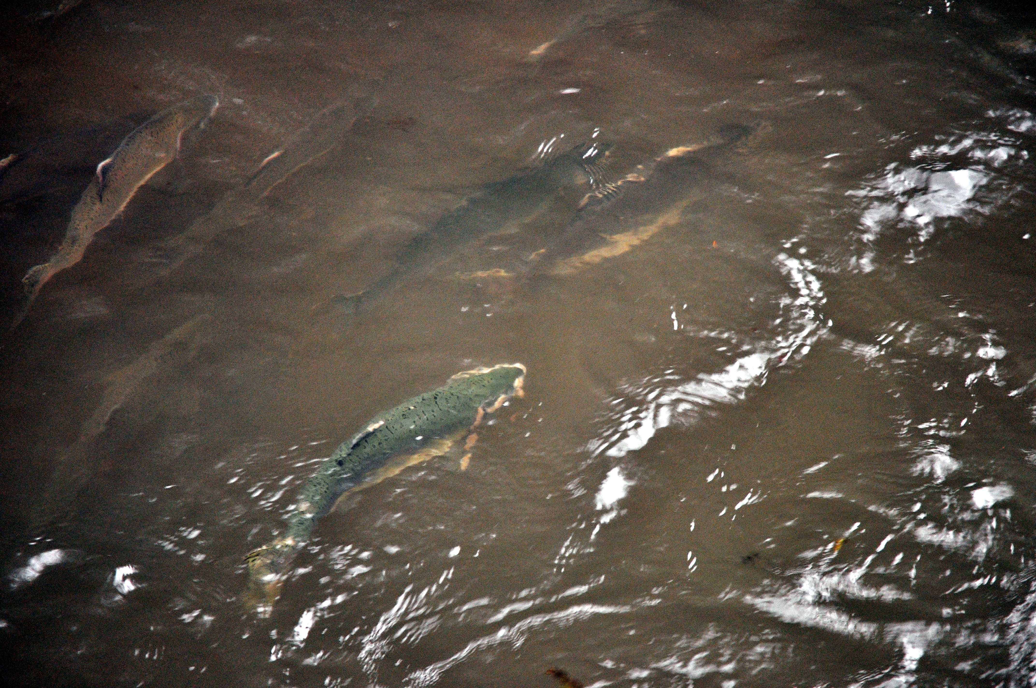 Salmon swimming upstream on the Greenwater River, on the border between King County and Pierce County, Washington, seen from the bridge on Washington State Route 410.